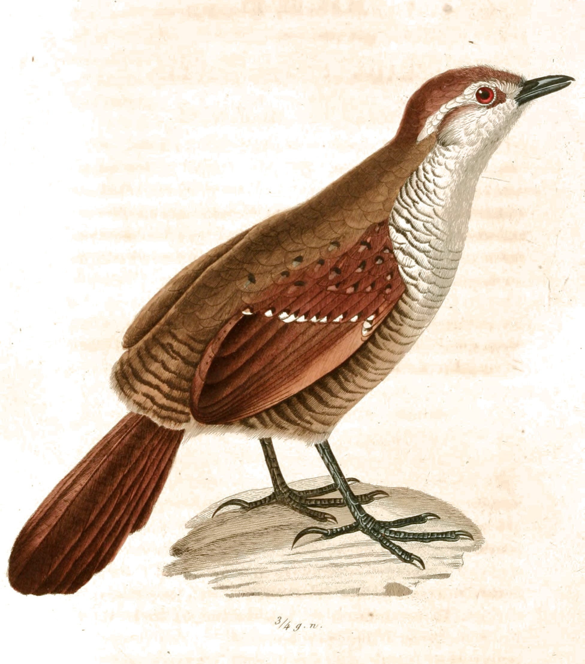 « Mégalonyx moyen, Megalonyx medius » = Scelorchilus albicollis (White-throated tapaculo)